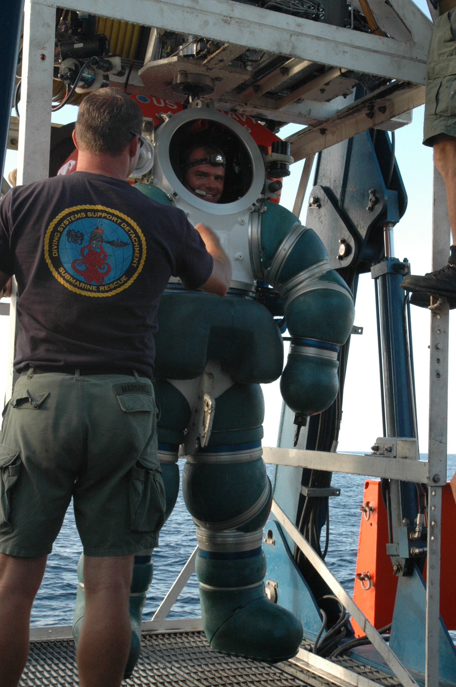 Chief Navy Diver Daniel Jackson completes a successful certification dive of the Atmospheric Diving System (ADS) aboard the special mission charter ship M/V Kellie Chouest off the coast of La Jolla, Calif.